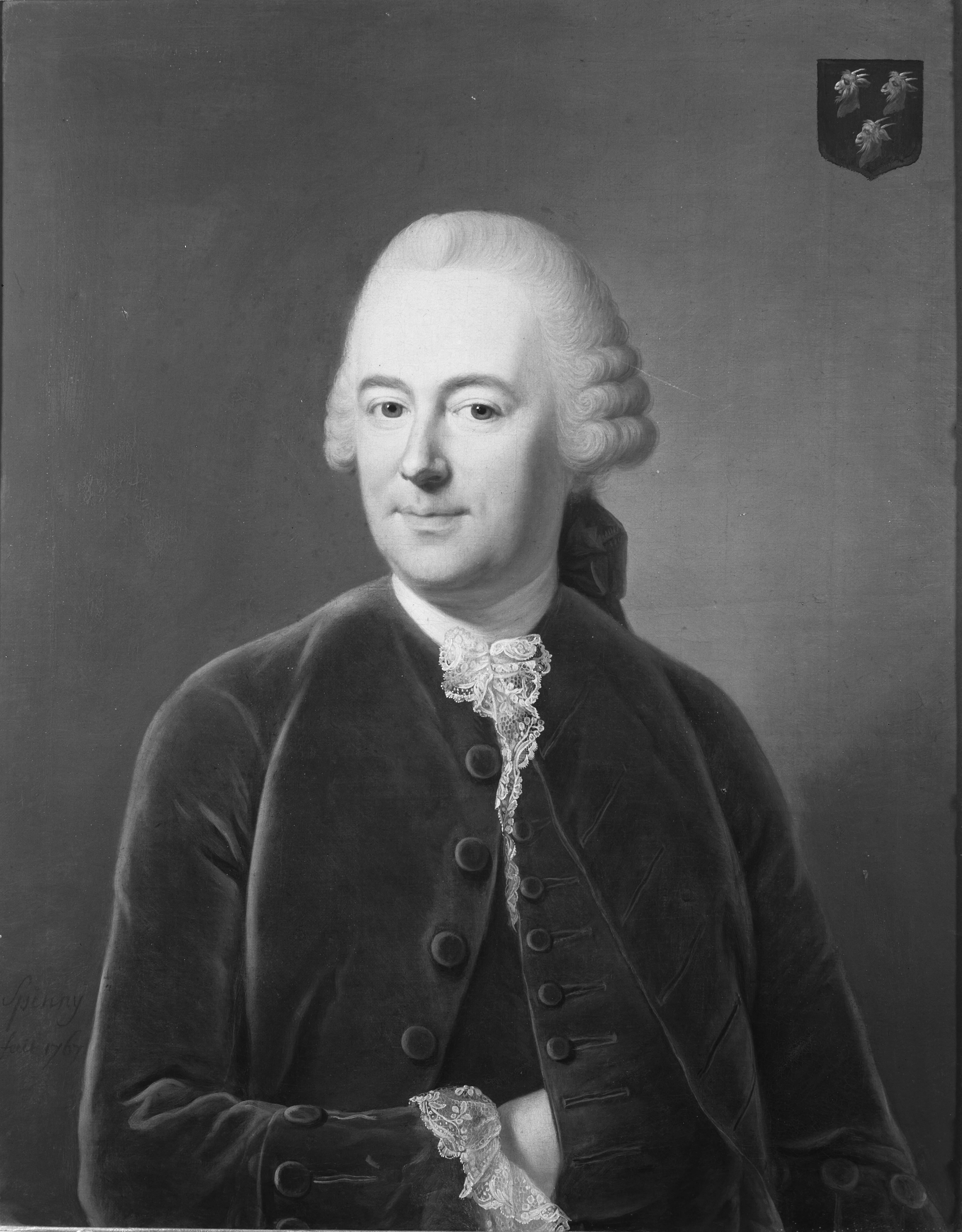 Adriaan van der Goes (1722-1797), Mayor of the city of The Hague, the Netherlands.